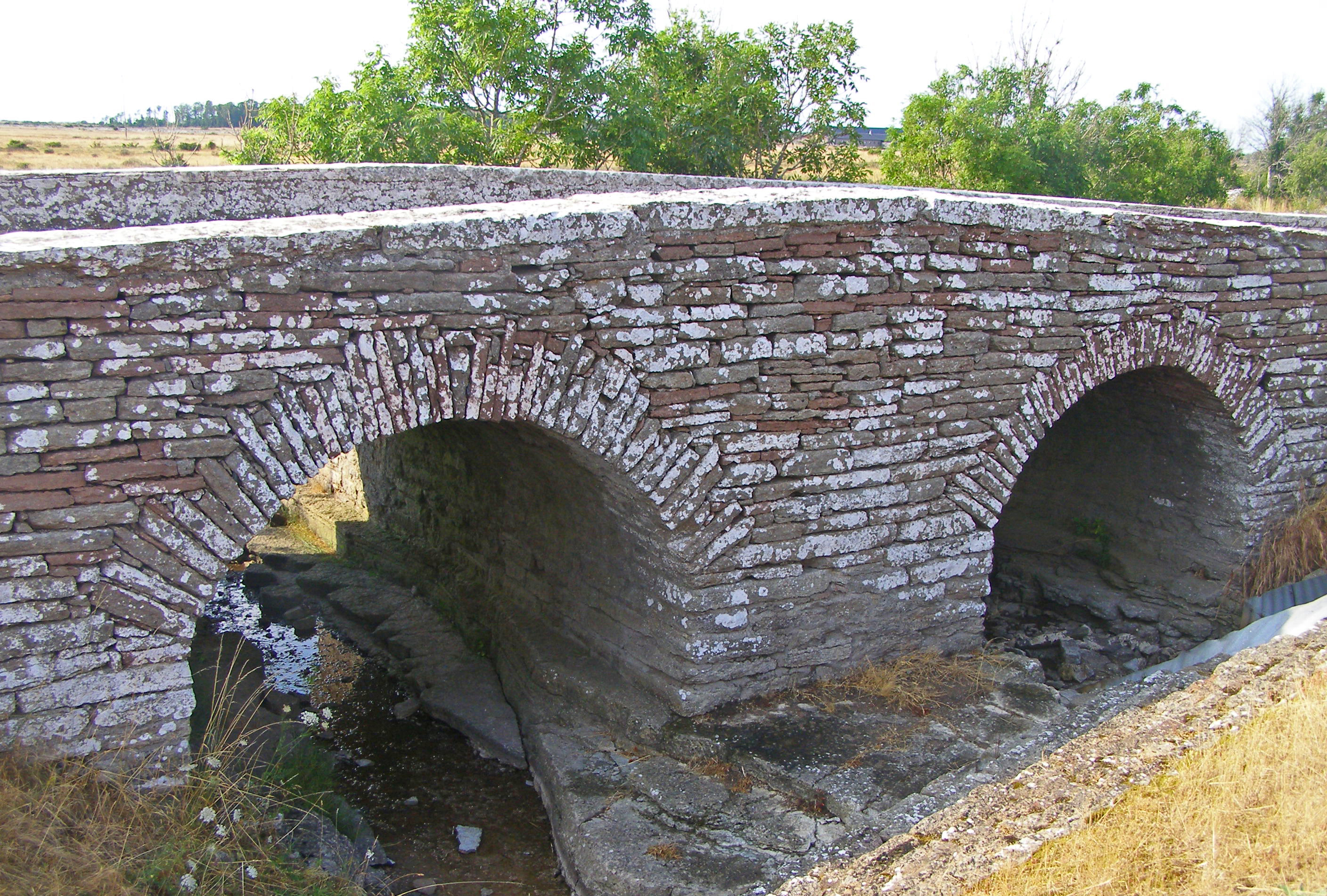 Photographer: C. Michael Hogan Subject: Medieval drystone limestone bridge across Karolina Creek at north edge of Alby, Sweden on the island of Oland Date: July, 2006